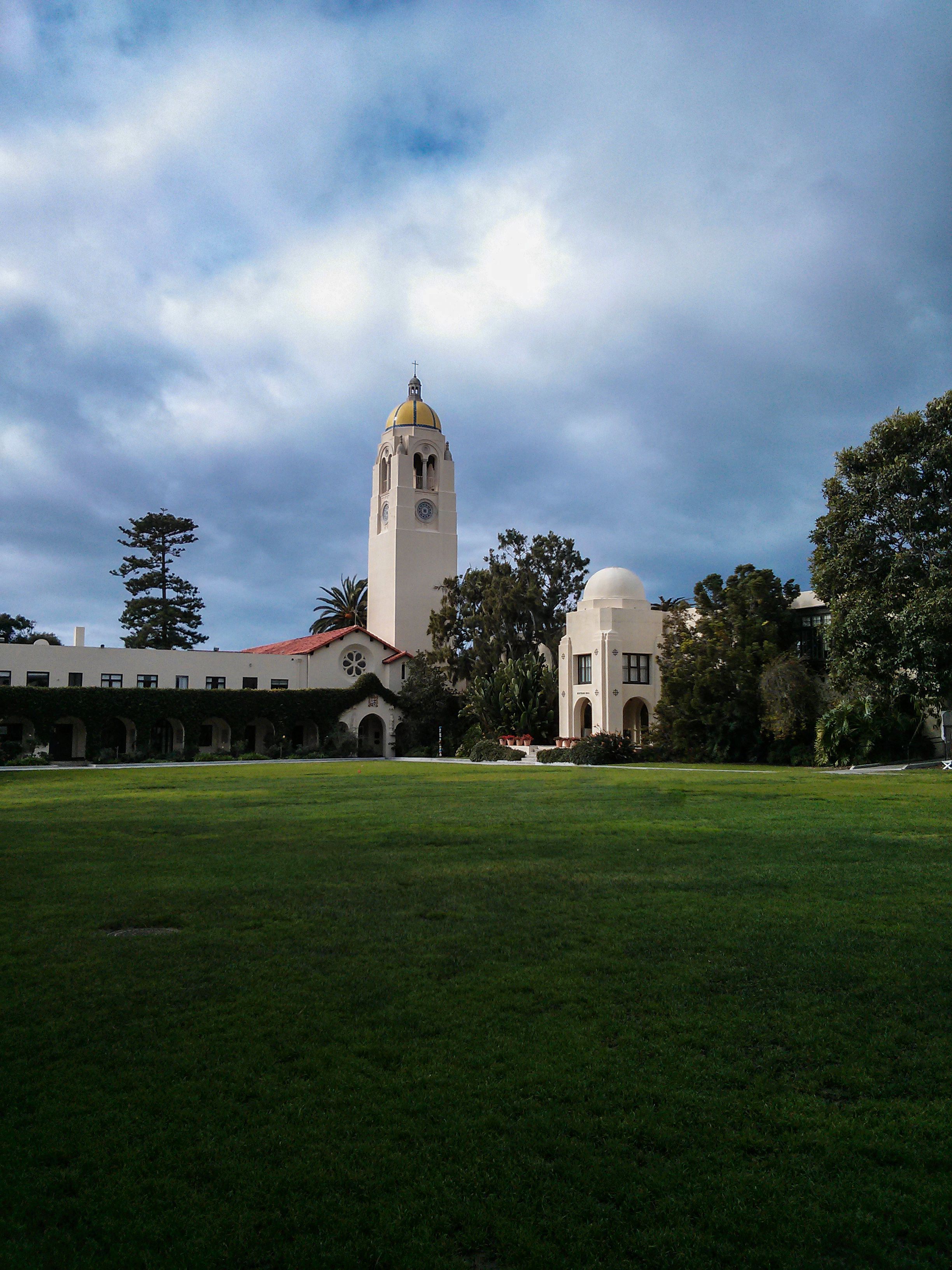 View across the Quad at The Bishop's School in La Jolla